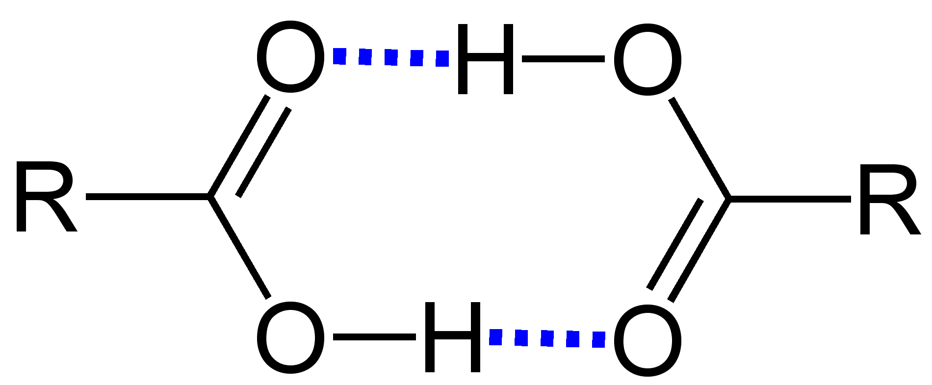 Carboxylic_Acids_Hydrogen_Bonds